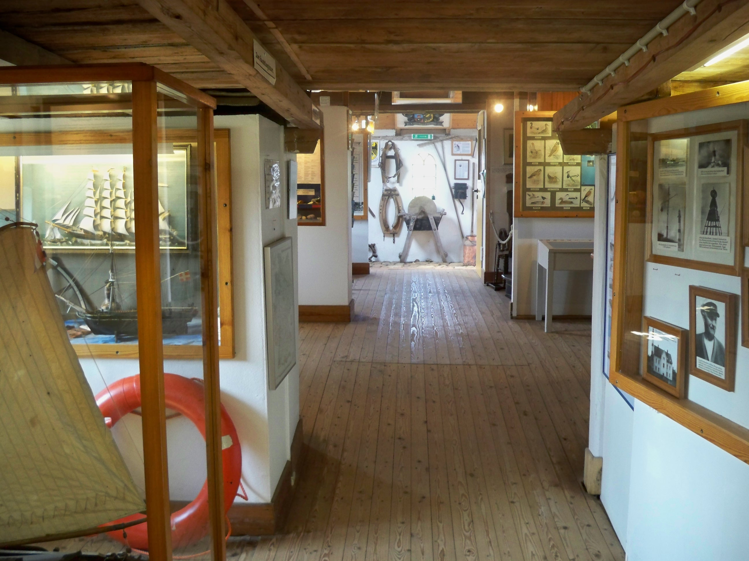 Nebel, Amrum, Schleswig-Holstein, interior of local museum in the windmill